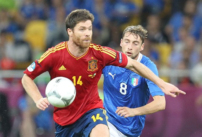 Xabi Alonso and Claudio Marchisio at Euro 2012 final Spain-Italy